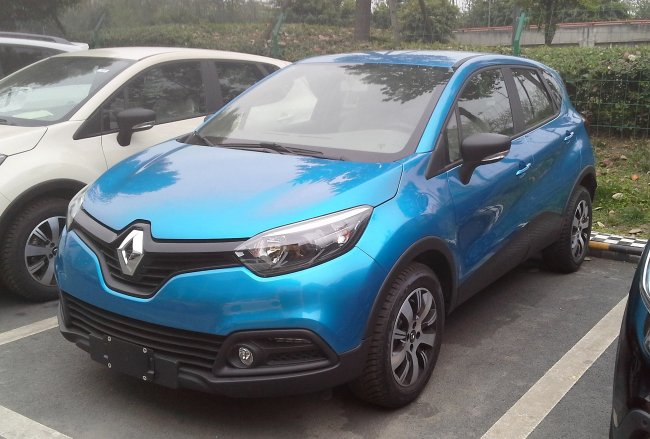 Renault Captur photographed in Chengdu, Sichuan province, China.